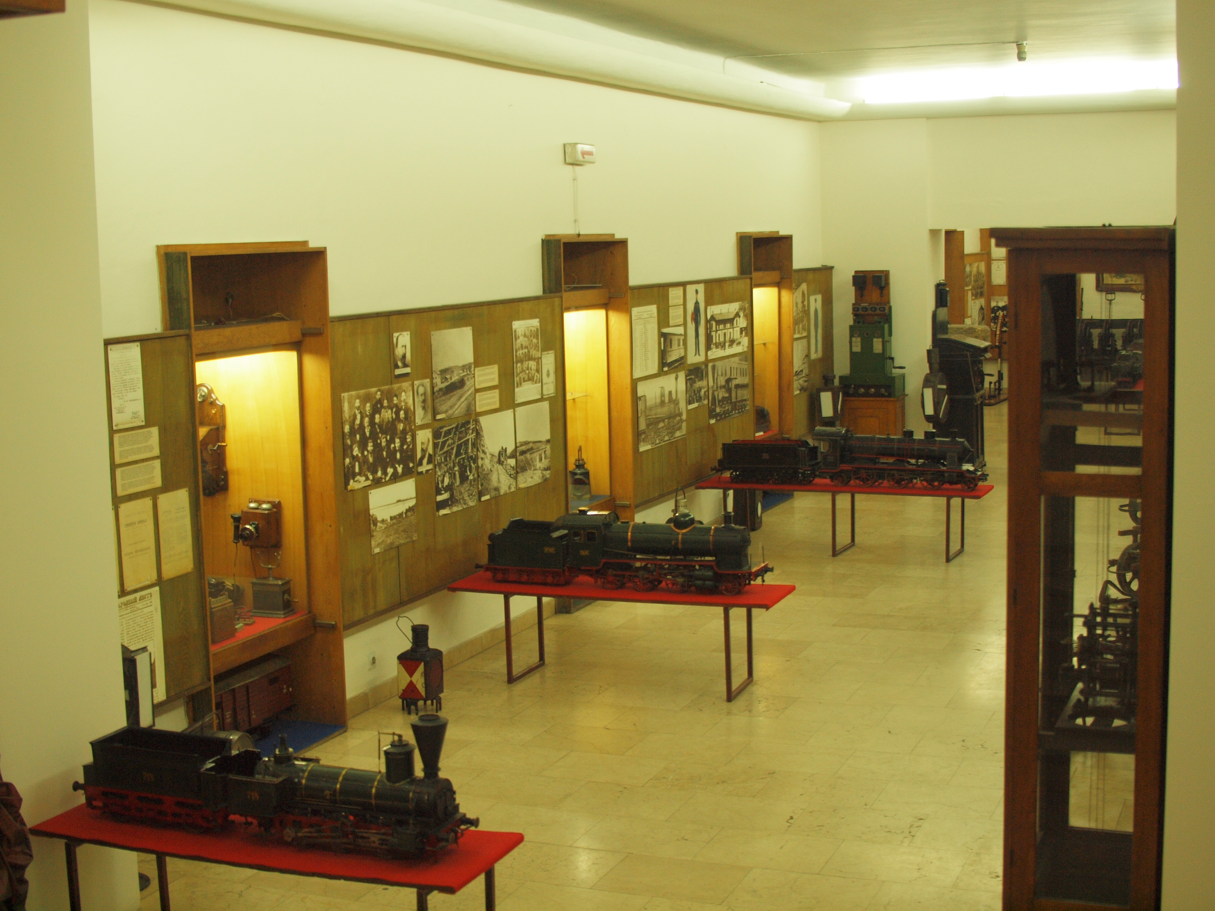 zeleznicki muzej belgrade